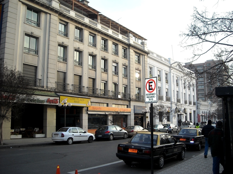 1 Sur street view from Plaza de Armas, financial district of Talca